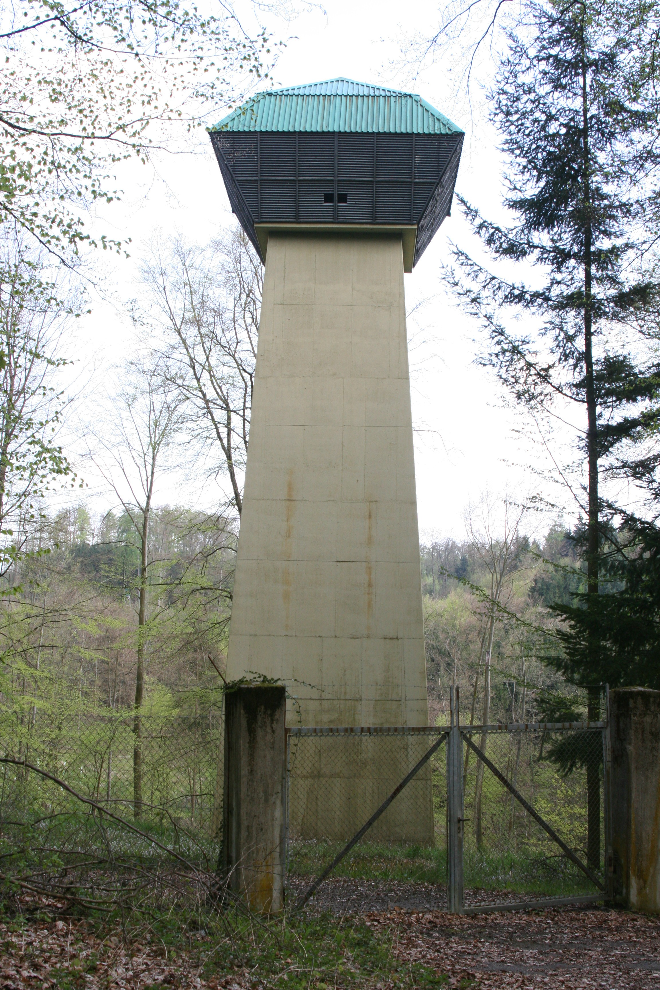 Ventilation shaft of the Bundeswehr depot lying below in the forest near Neckarzimmern